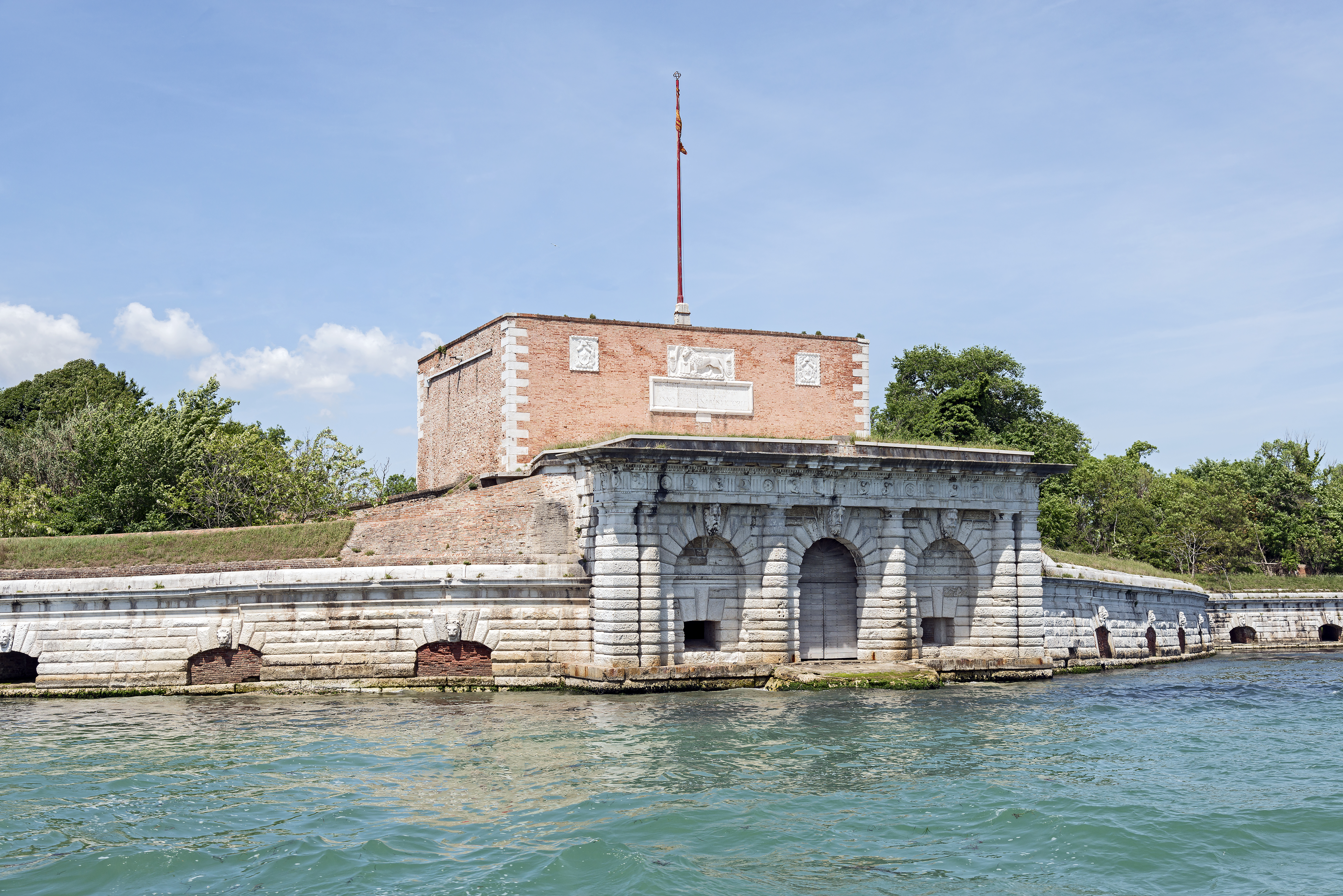 Fort San Andrea in San Andrea island in Venice – seen from the lagoon. It protected the entrance of the lagoon by the pass ofLido. Was strengthened byMichele Sanmicheli from 1545 to 1550 and then in 1571 by Francesco Malacrida.